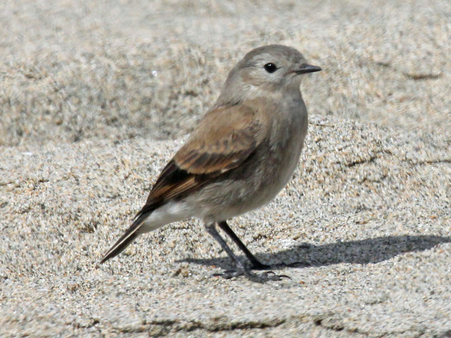 Female Austral Negrito (Lessonia rufa) photographed near Los Vilos, Chile.